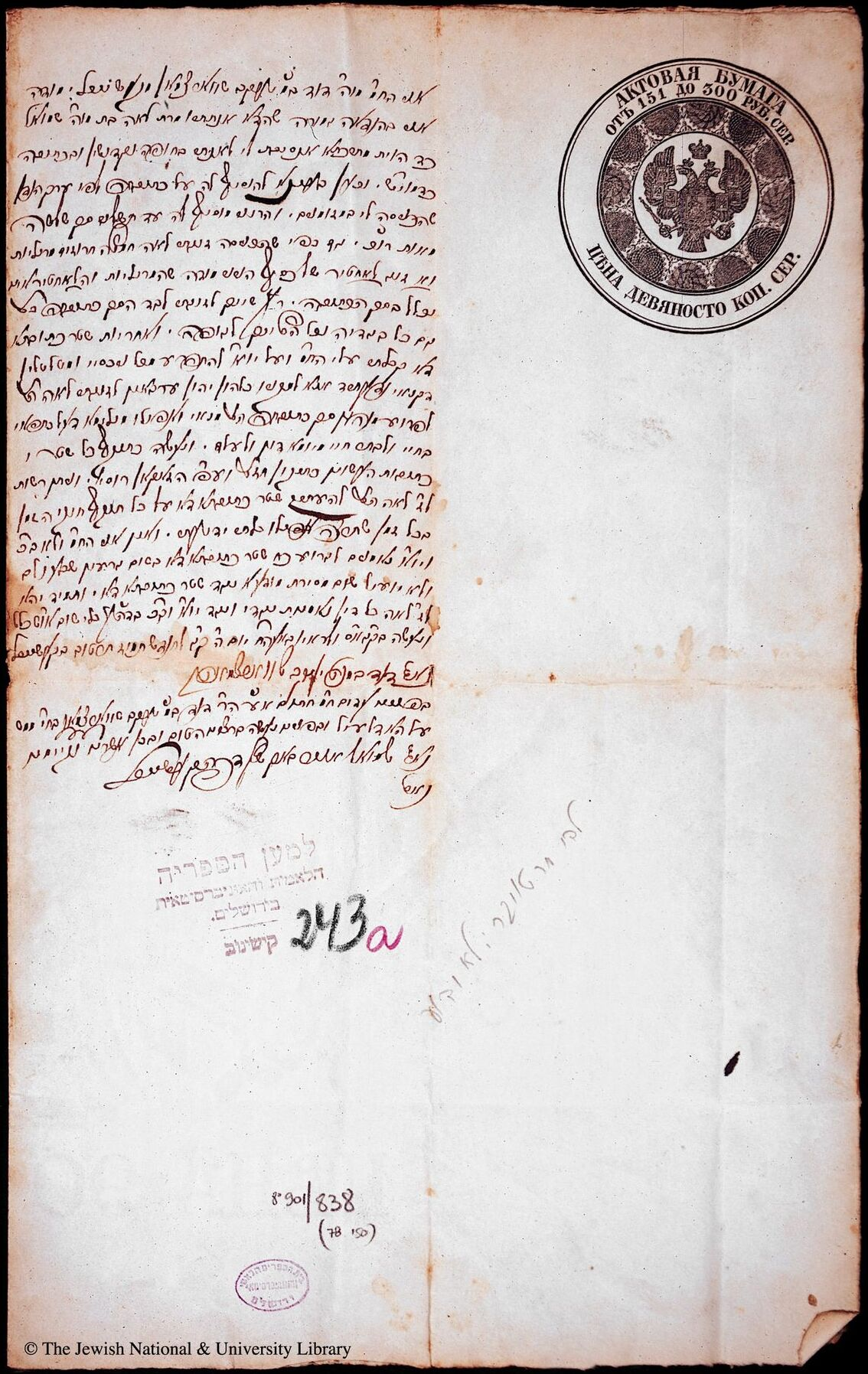 Ketubah from The Ketubot Collection of the National Library of Israel